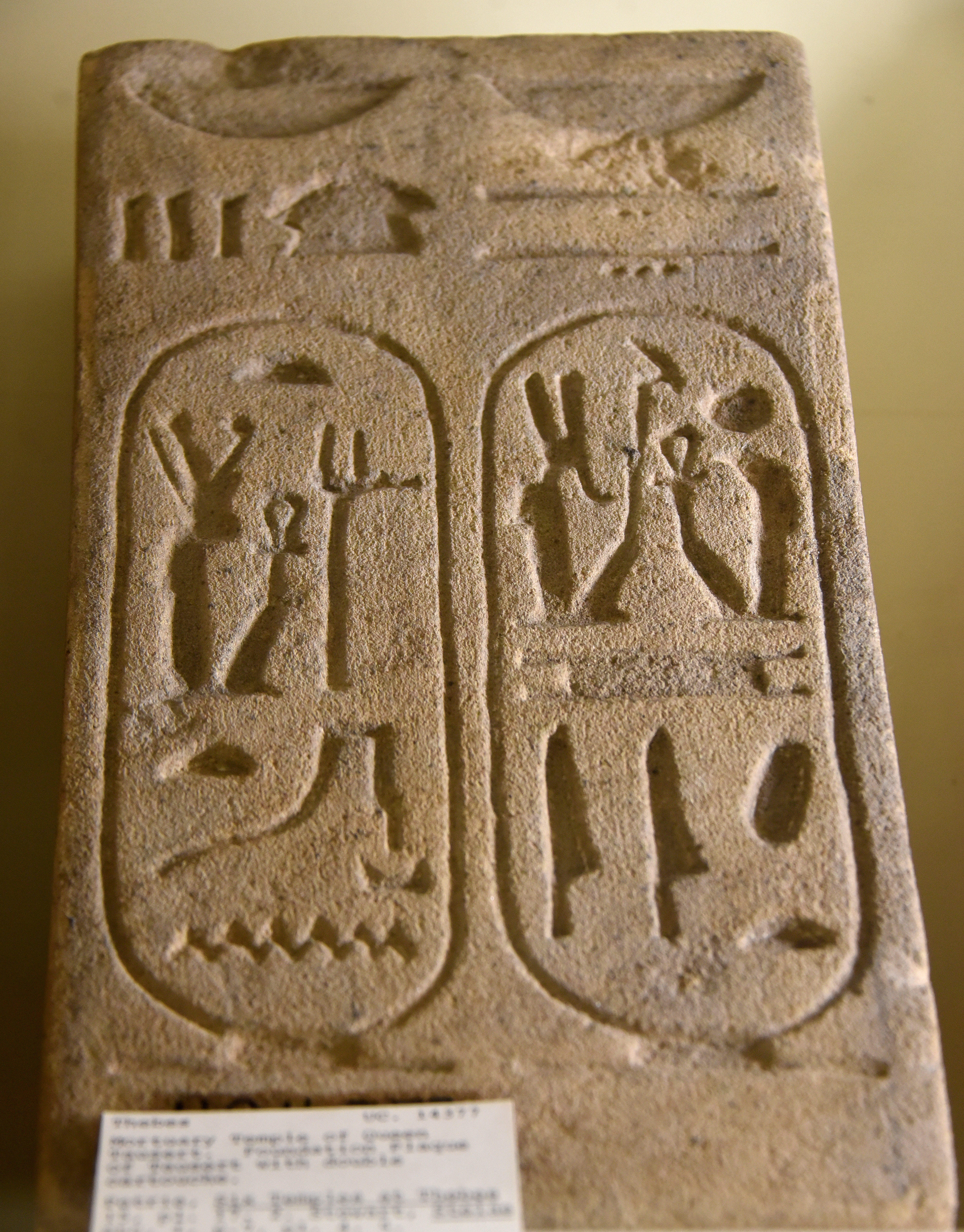 Foundation plaque bearing the double cartouches of Queen Twosret. From the mortuary temple of Queen Twosret (Tawesret, Tausret) at Thebes, Egypt. 19th Dynasty. The Petrie Museum of Egyptian Archaeology, London. With thanks to the Petrie Museum of Egyptian Archaeology, UCL.